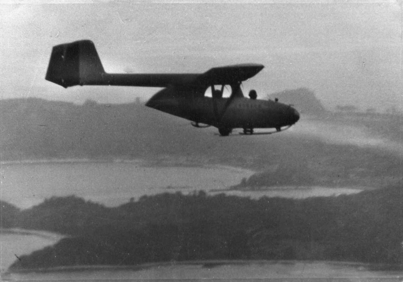 SM-206 Glider During a flight